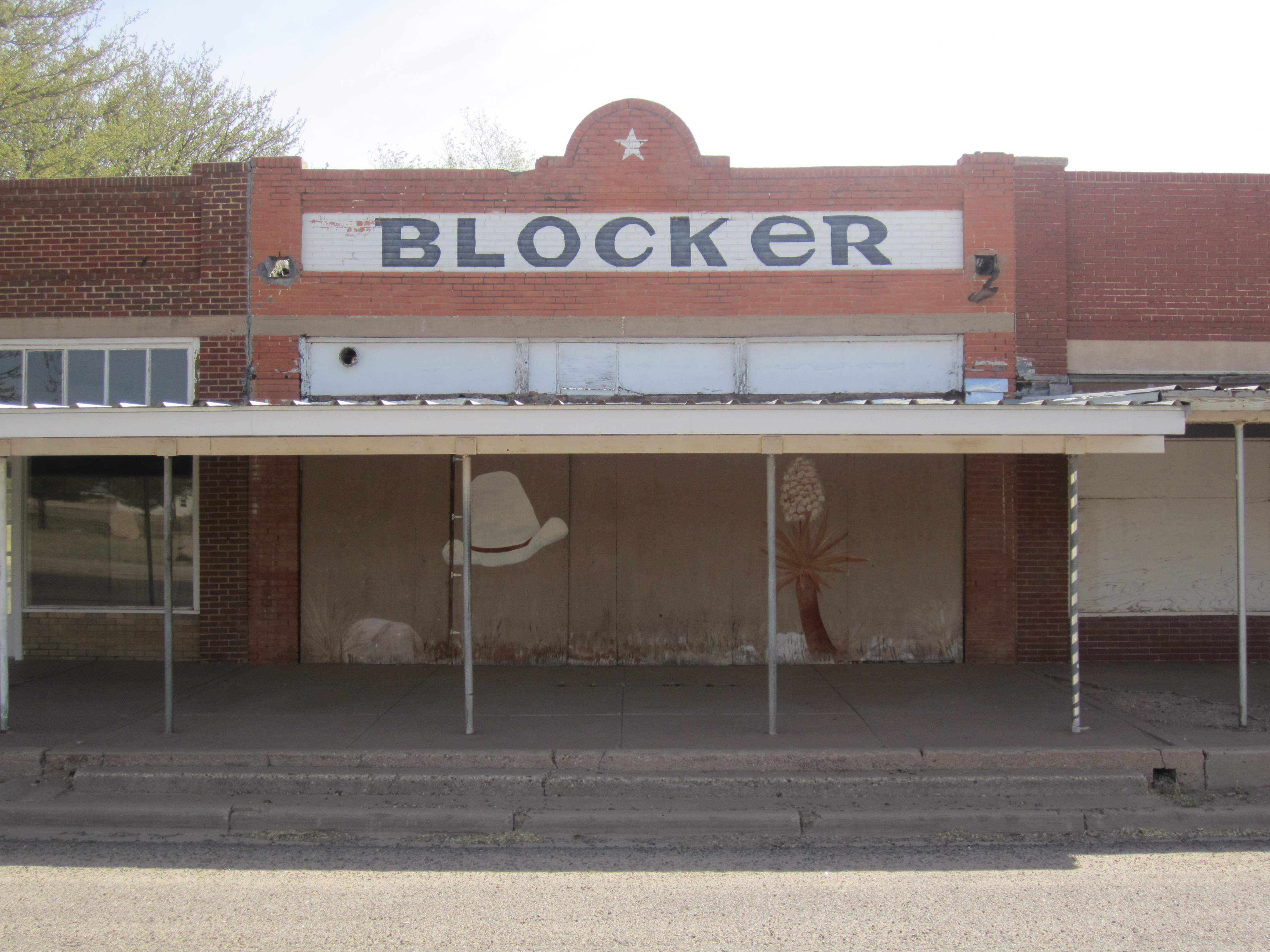 I took photo in Doak St., O'Donnell, TX, with Canon camera.